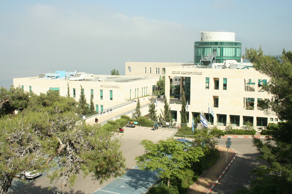 University of Haifa - Rabin Building